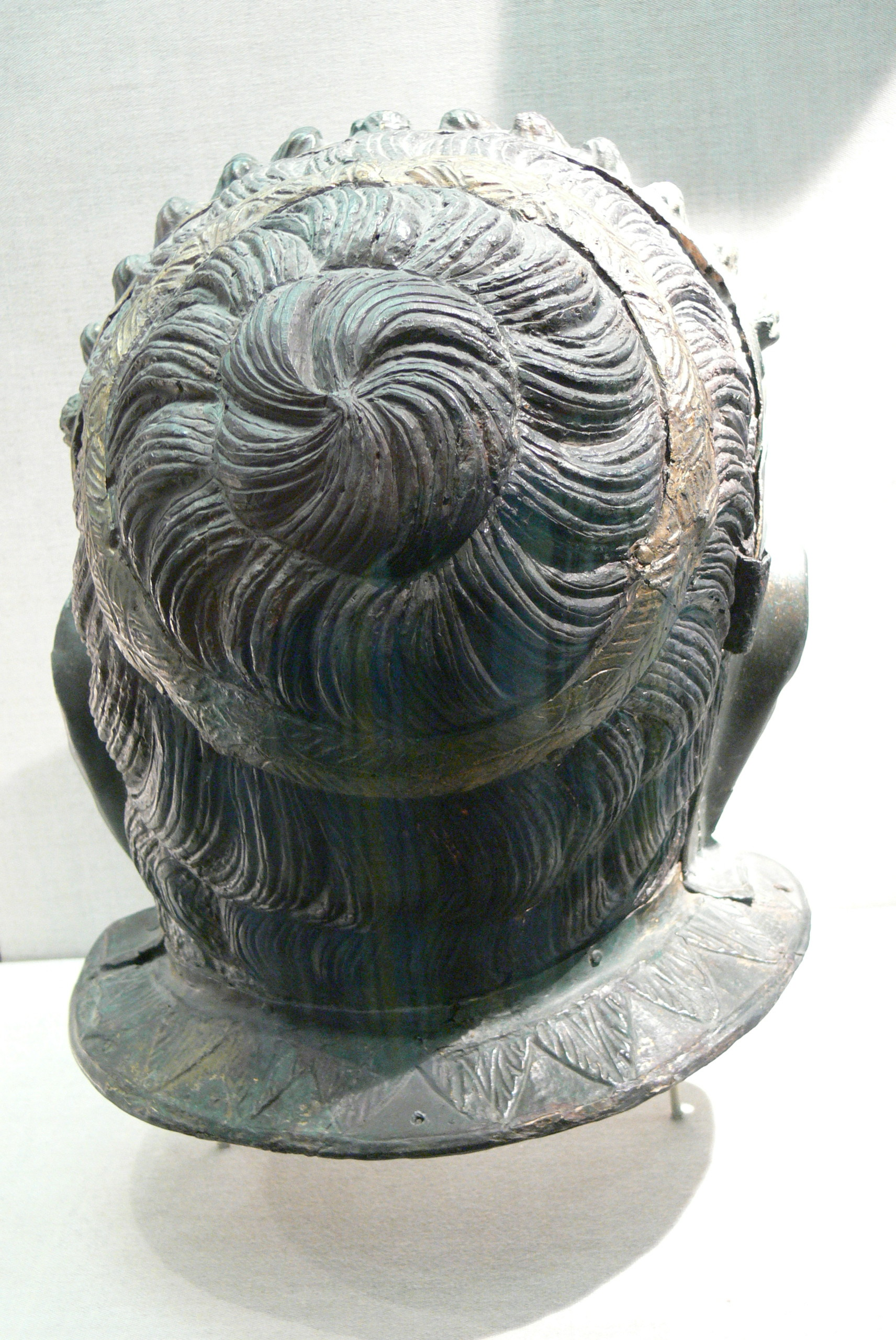 Weißenburg ( Bavaria ). Roman Museum: Bronze rear part of a military mask (2nd/3rd century AD).